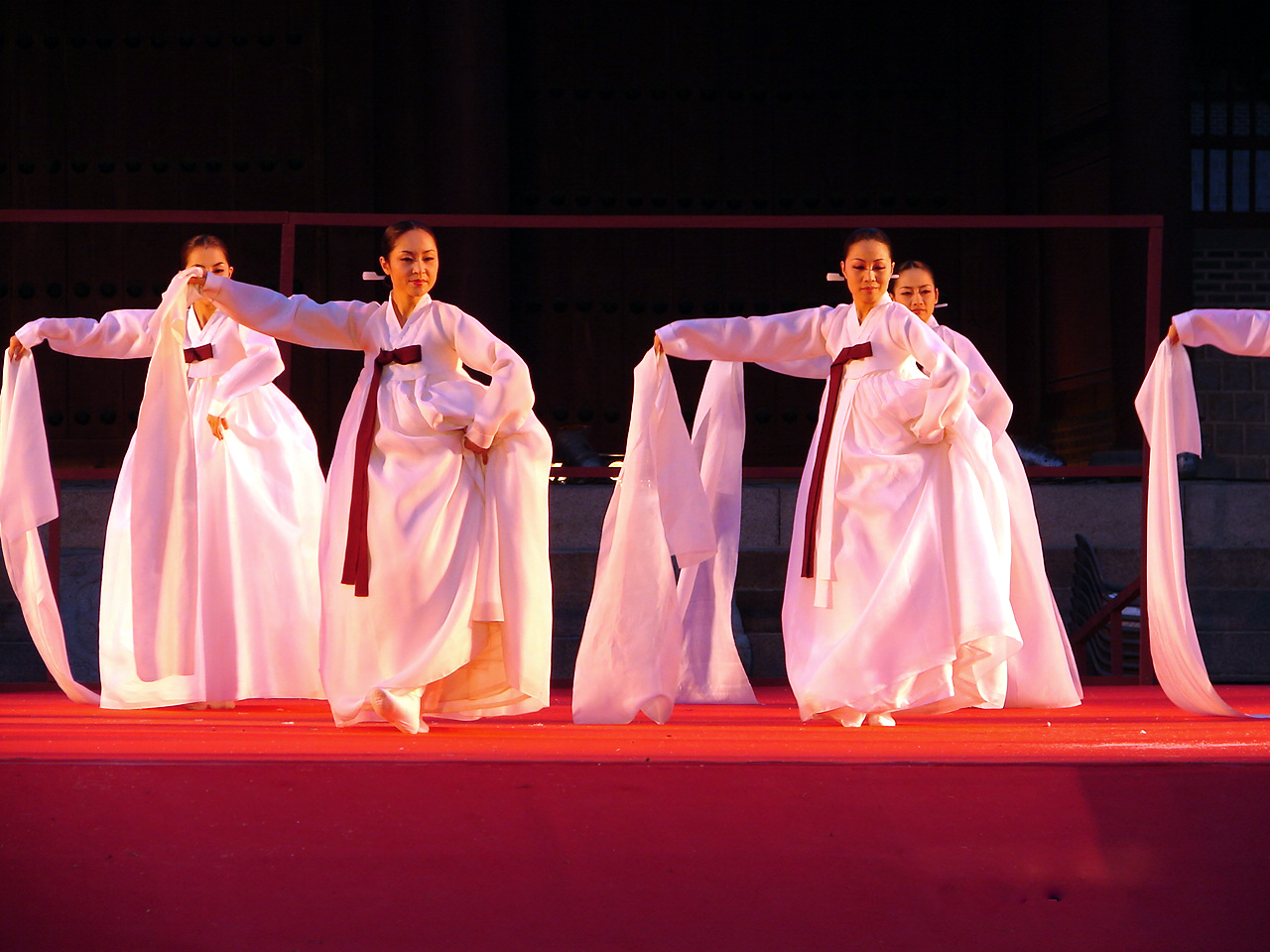 Salpurichum (살풀이춤), a traditional Korean folk dance aimed to exorcise evil spirits performed at the Hi! Seoul Festival